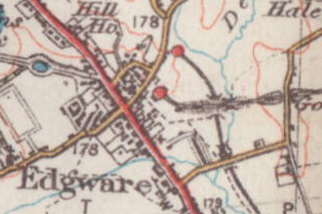 This map is an extract of an old Ordnance Survey map from 1934 which is out of copyright. see Licensing below for details of the source of this image. --DavidCane 23:53, 18 February 2007 (UTC)